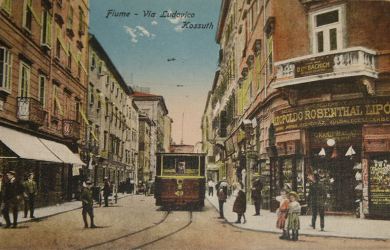 Old tram in Rijeka, Croatia